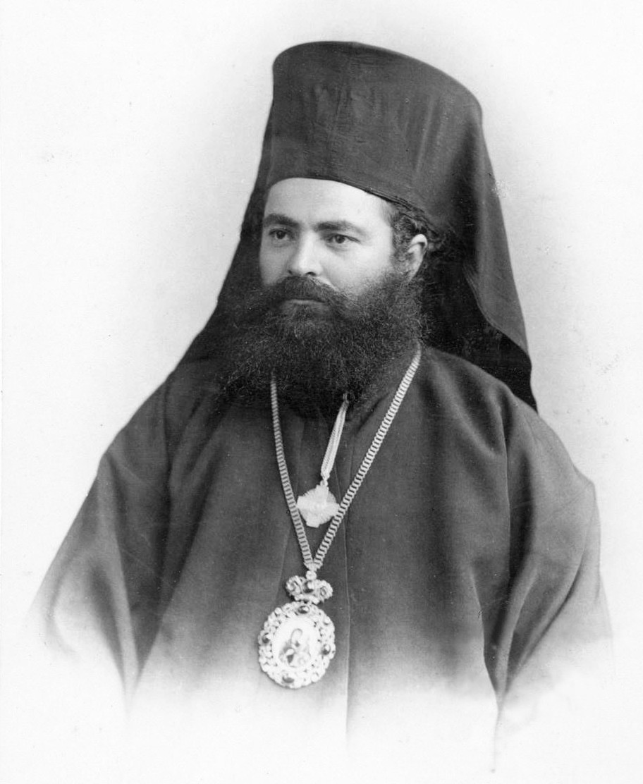 Gregory of Pelagonia in 1891 by Abdullah Brothers